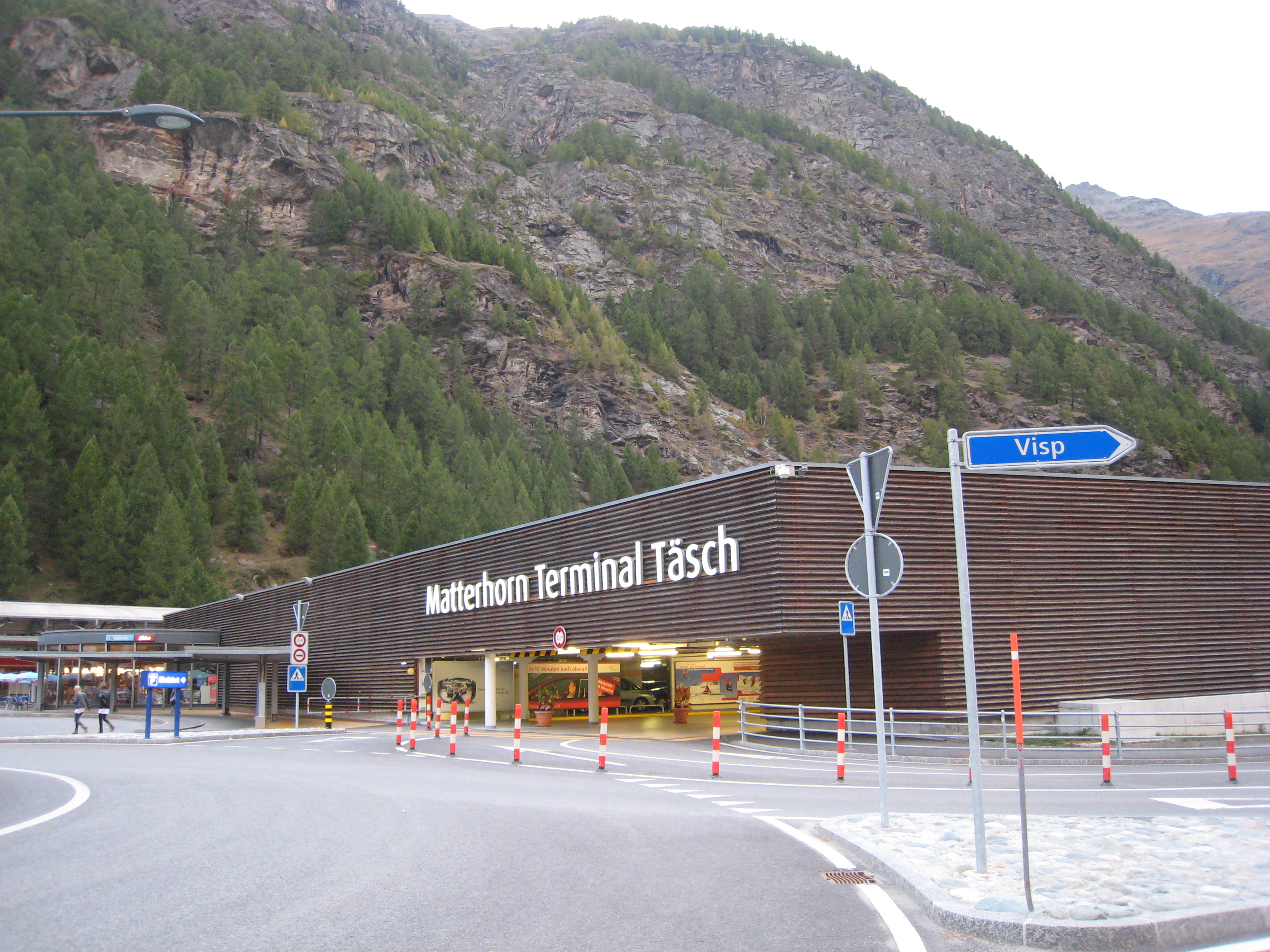 Matterhorn terminal at Täsch, Valais, Switzerland